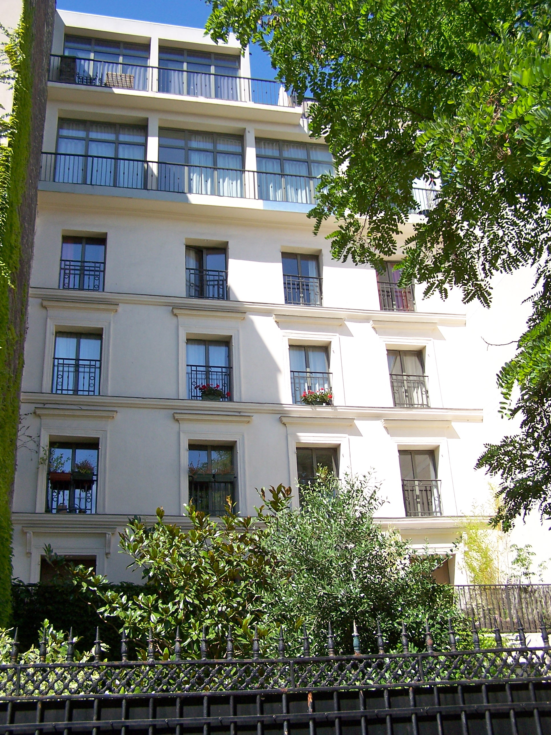 Building at 11 Cité Lemercier in Paris where Jacques Brel lived from 1958 to 1970.